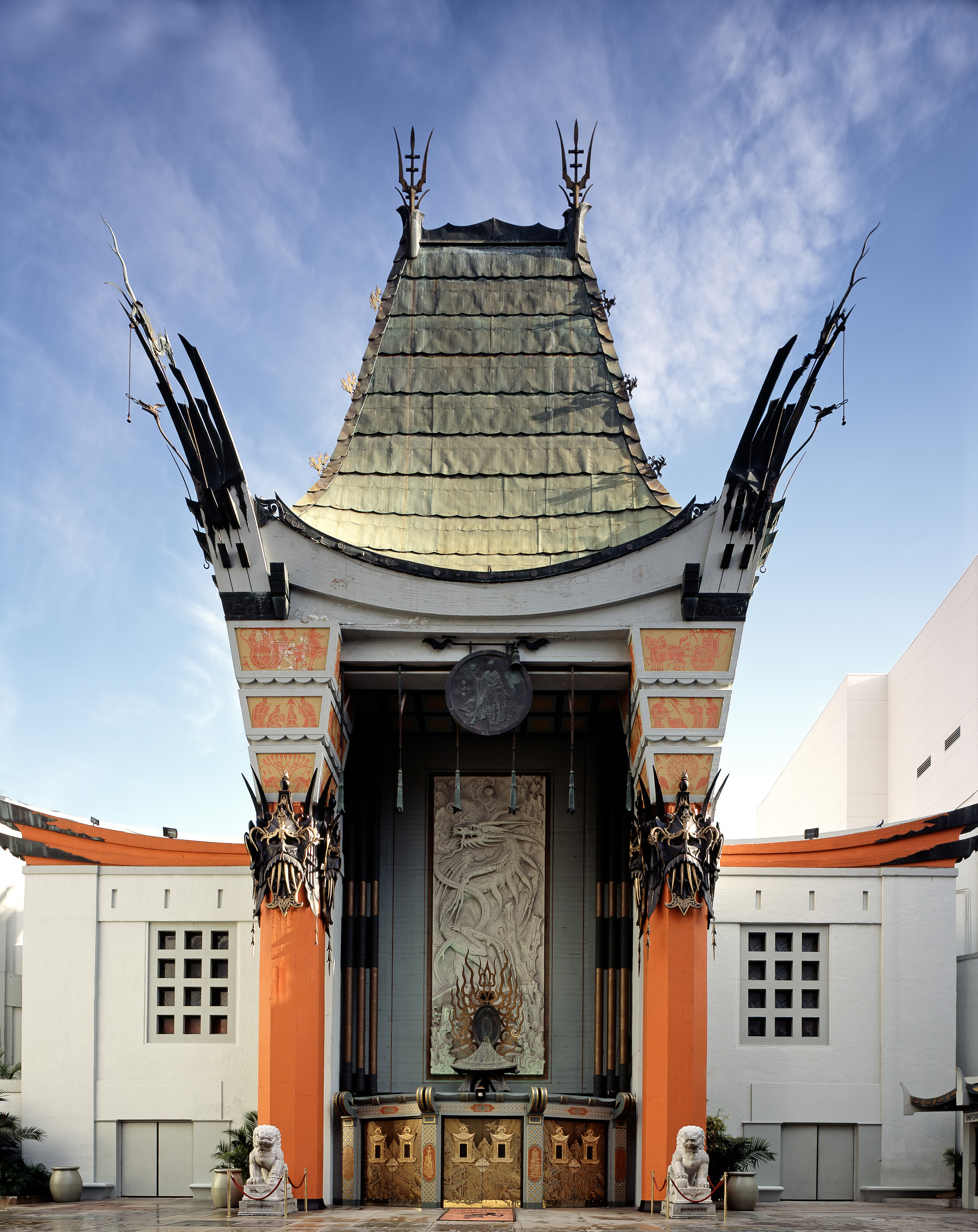 Grauman's Chinese Theatre, photographed by Carol M. Highsmith.